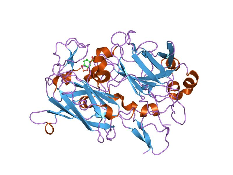 Cartoon representation of the molecular structure of protein registered with 1eob code.